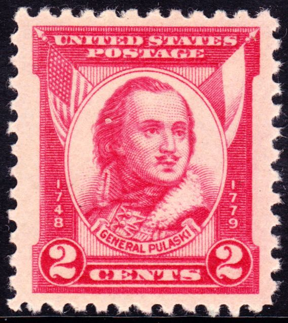 1931 United States postage stamp, 2 cents, showing General Casimir Pulaski with a Polish flag and a U.S. 48-star in background. Part of an informal 1925-1931 series of 1-cent and 2-cent stamps for the sesquicentennial of the U.S. Revolution and Revolutionary War.